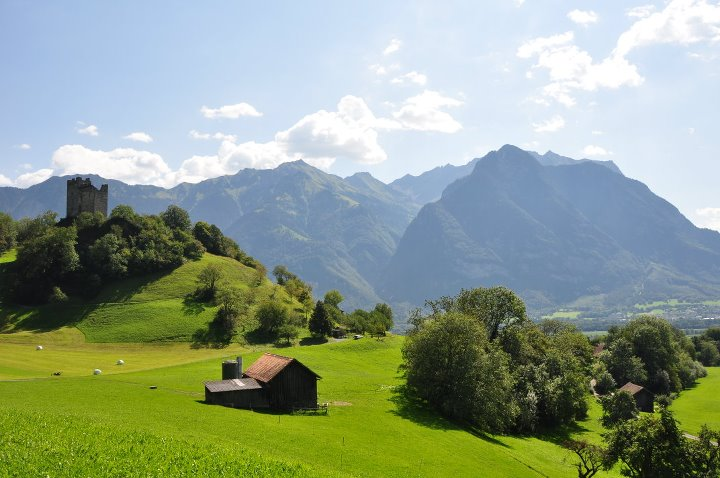 Wartau Castle. View over Mittagspitz (FL)